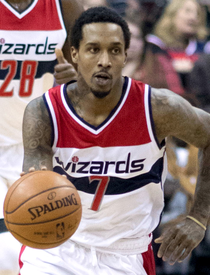 Magic at Wizards 3/5/17